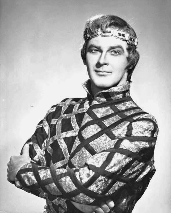 1976 Press Photo Baritone John Reardon in Romeo and Juliet at the Met Opera